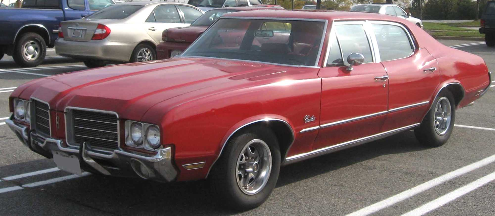 1971-1972 Oldsmobile Cutlass photographed in Waldorf, Maryland, USA.